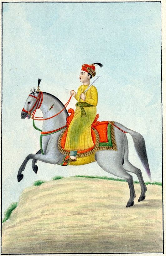 Watercolour painting on paper of Akshayakumara, the youngest son of Ravaṇa. He is shown riding a grey horse with a red and green saddle. Akshayakumara wears a yellow tunic over blue trousers with a green sash. He has a red turban on his head. In his right hands he holds the reins of the horse and in his left hand he holds a sword which he rests against his shoulder. The horse is shown rearing on ground which falls away to the left of the painting. The painting is surrounded by a black border.